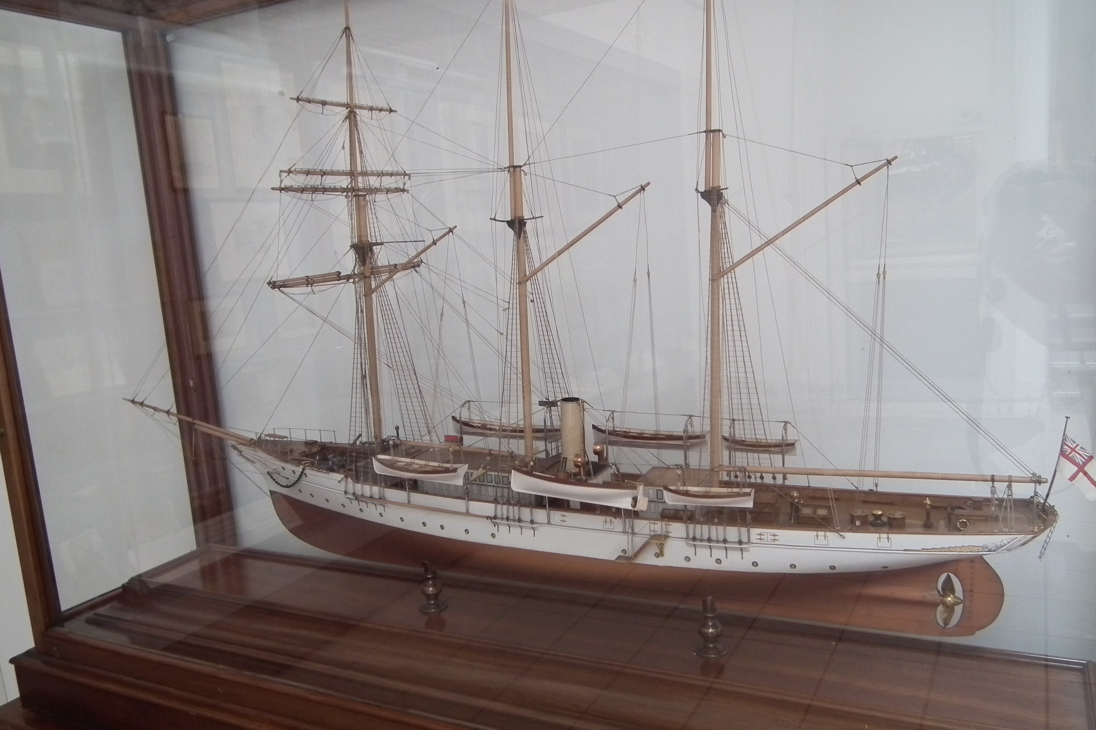 Model of Sunbeam RYS in Hastings UK Museum